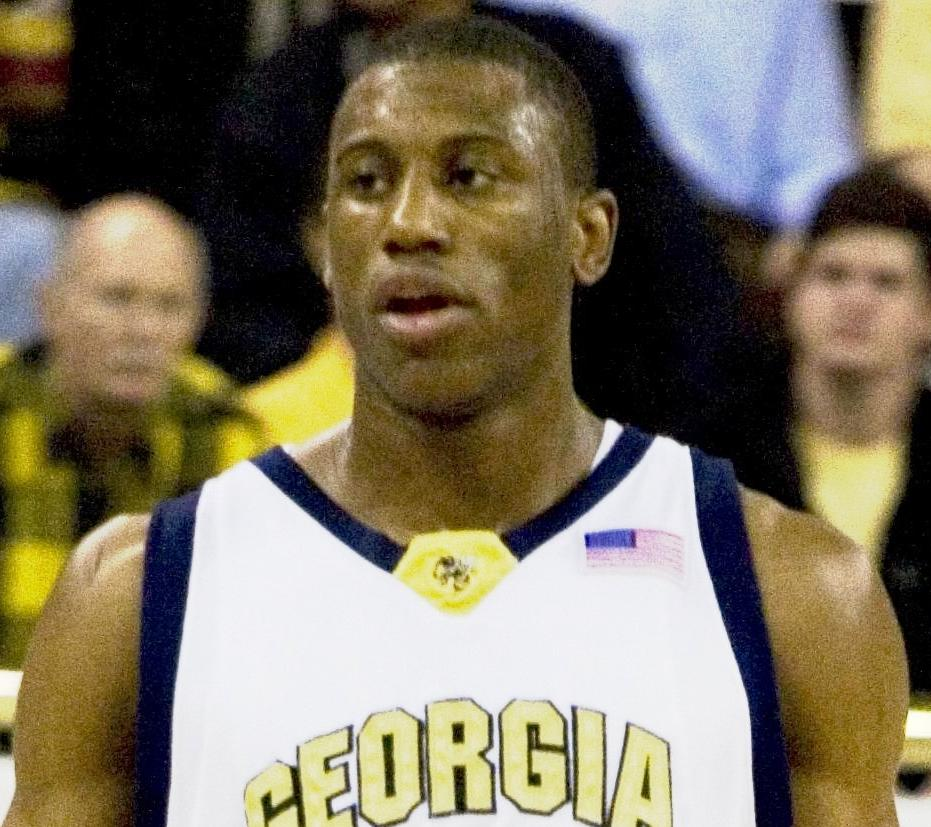 Georgia Tech basketball player Thaddeus Young.